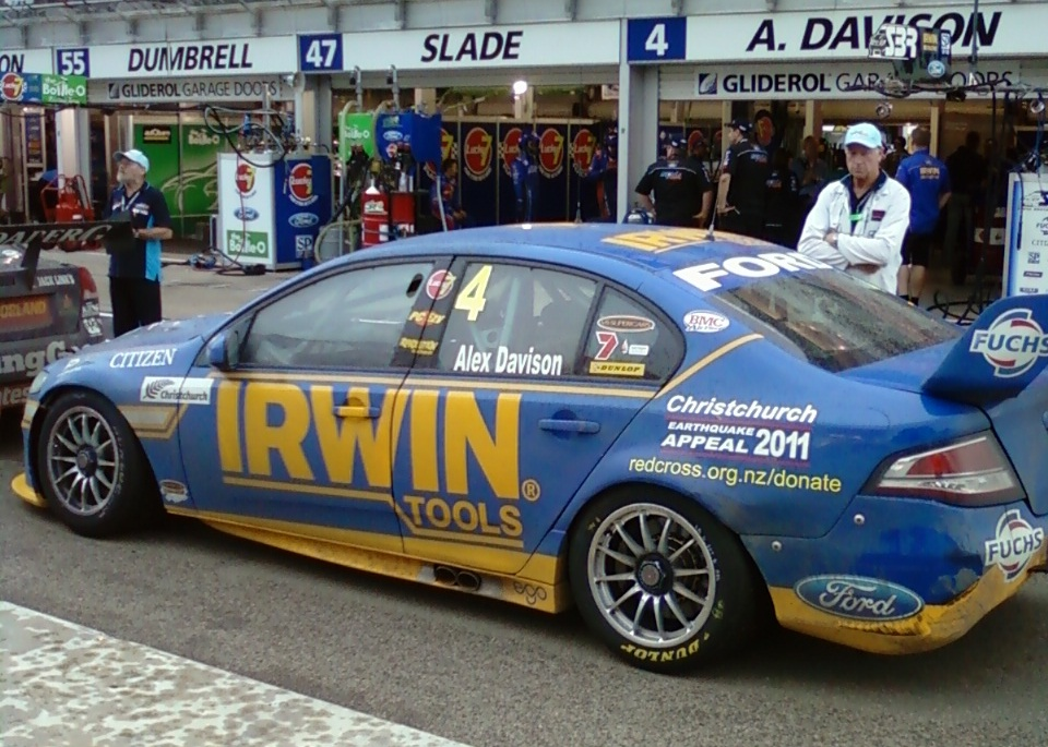 The Stone Brothers Racing entered Ford FG Falcon of Alex Davison at the 2011 Clipsal 500 Adelaide